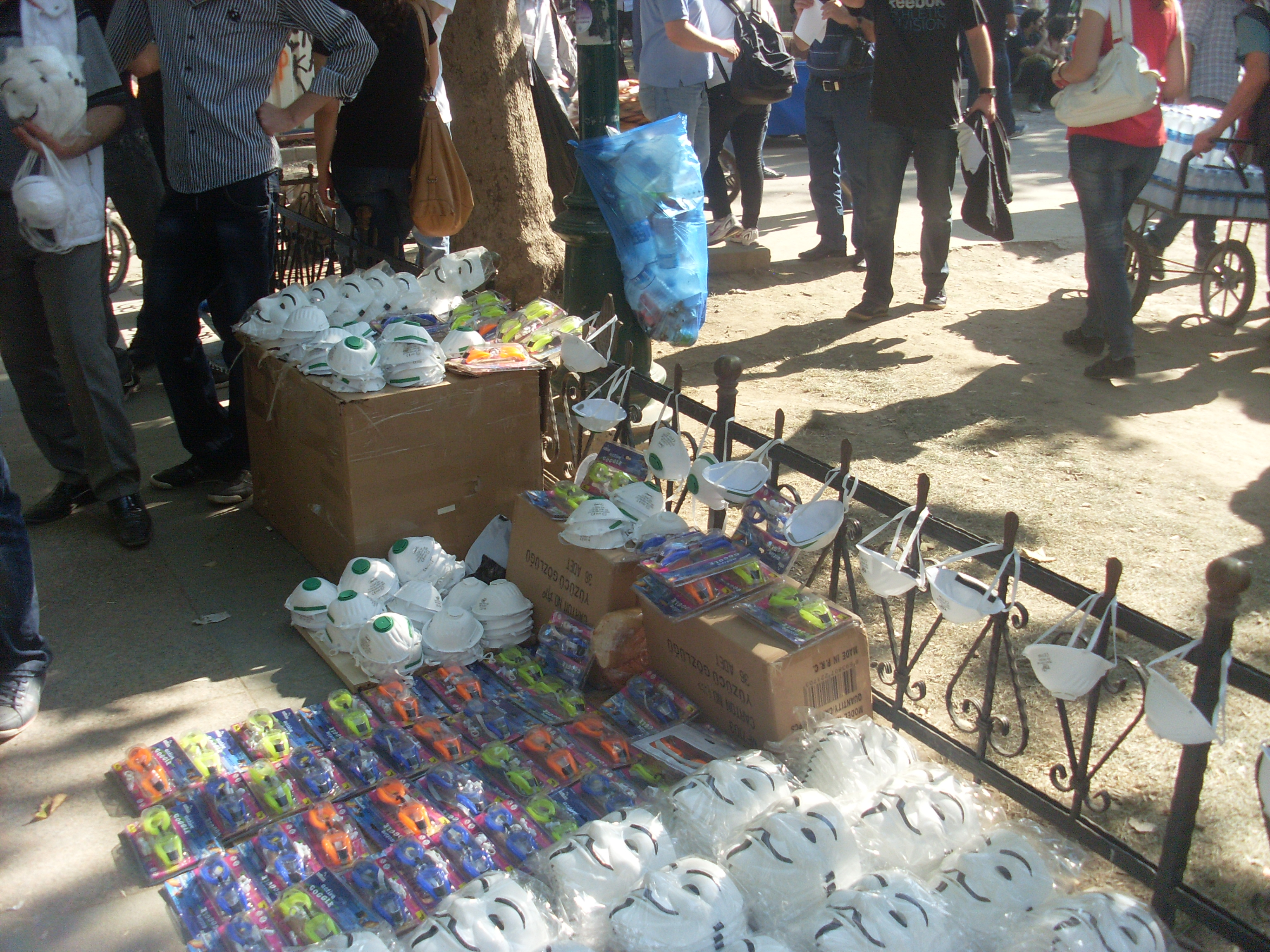 2013 Taksim Gezi Park protests. Guy Fawkes masks, dust masks and goggles on sale in Gezi Park, 4 June